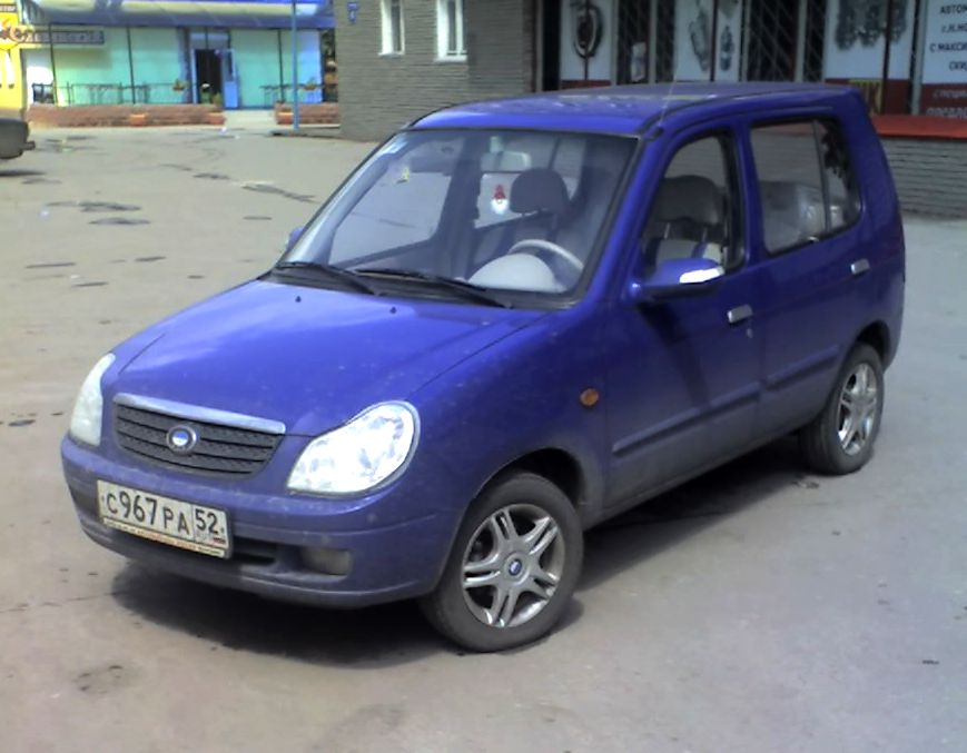 BYD Flyer, with Russian license plates